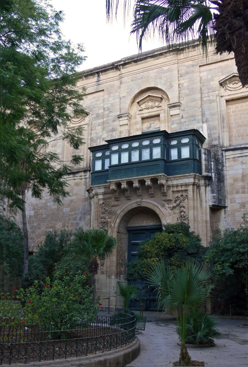 Inner courtyard of the Grandmasters' Palace in Valletta, Malta